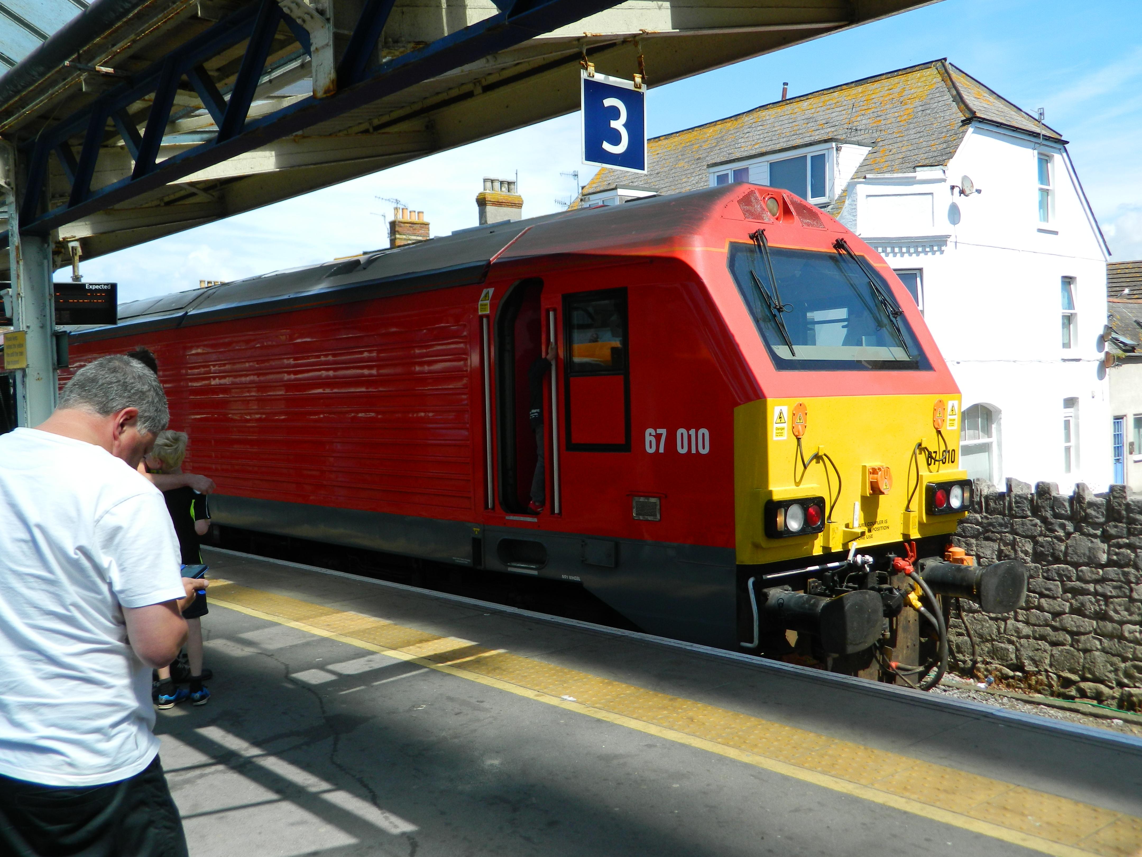 A Class 67 at Weymouth, hauling a set of Mk2s.